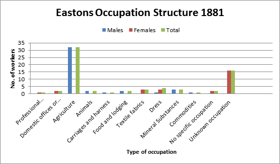 Various types of occupation in Easton, 1881 as recorded by A Vision of Britain through Time